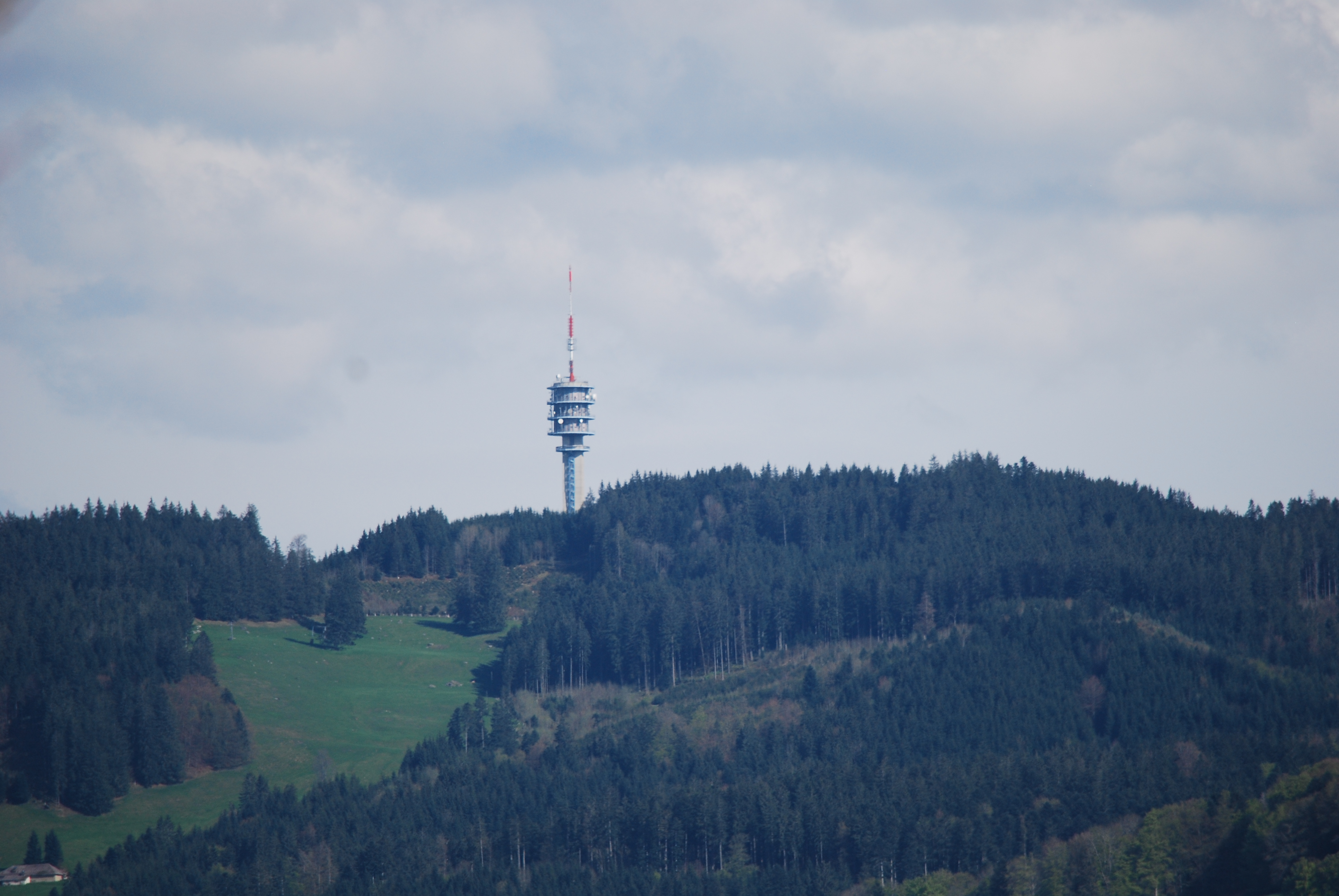 Mount Gibloux seen from Villaz-Saint-Pierre, canton of Fribourg, Switzerland - Mount Gibloux with the Swisscom tower in the back